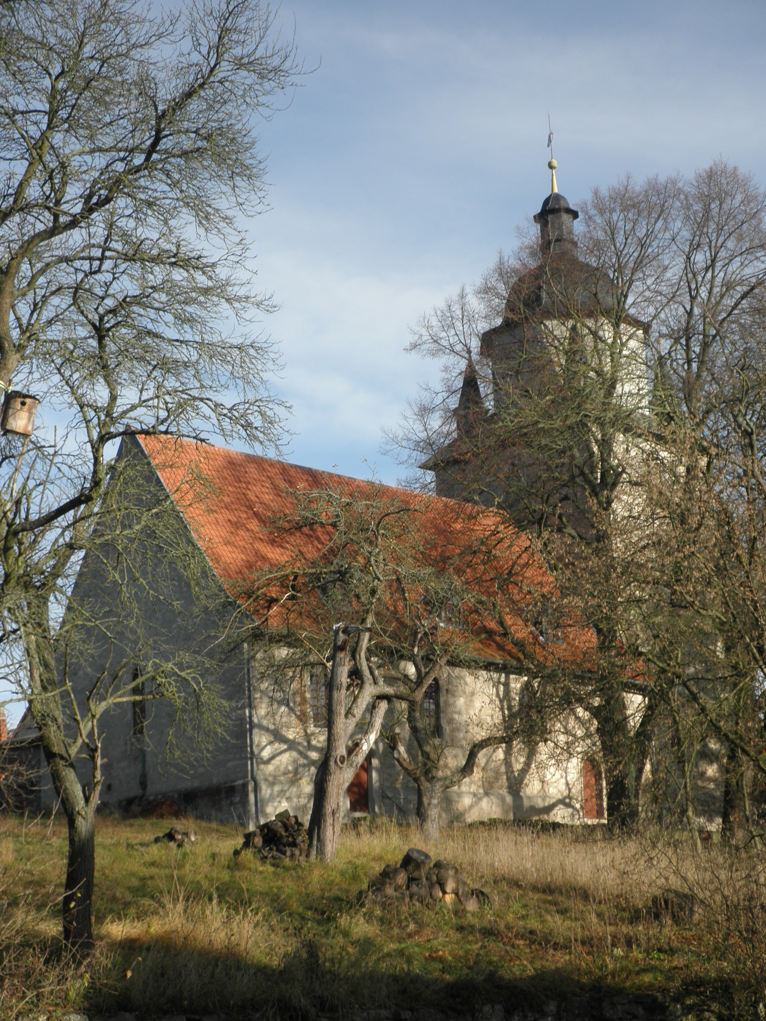 Church in Großbrüchter in Thuringia